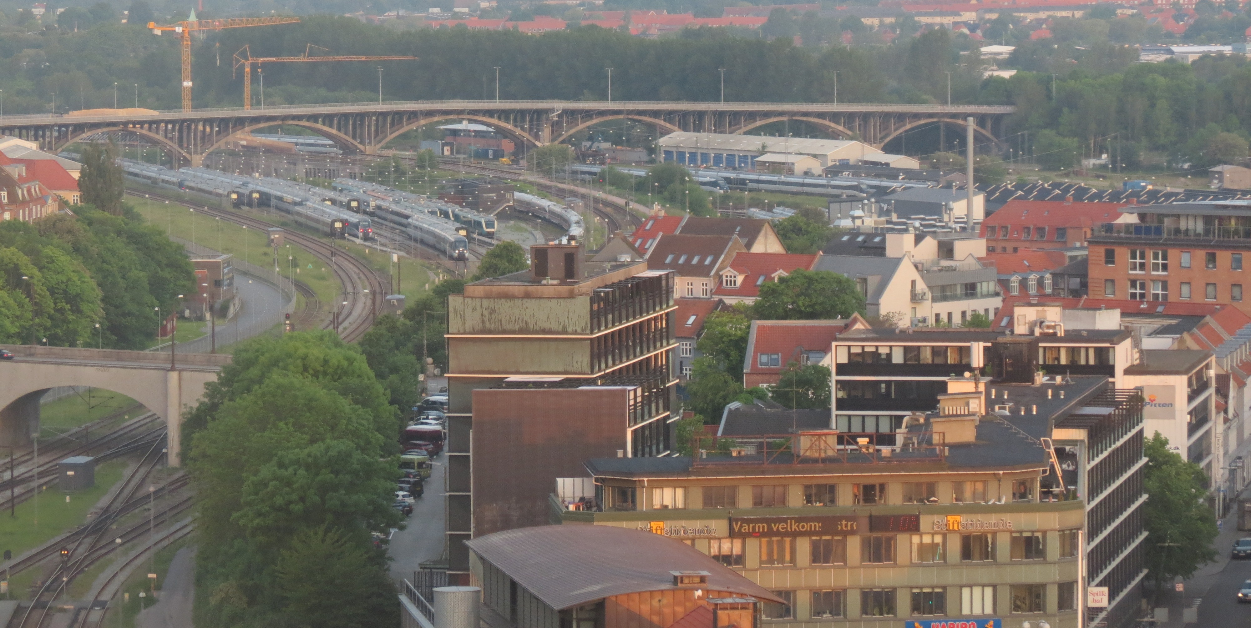 The Inner Circle Road-Bridge of Aarhus, seen from east, Aarhus Centrum bird's-eye view